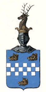 Coat of Arms of Gordon family (Poland)